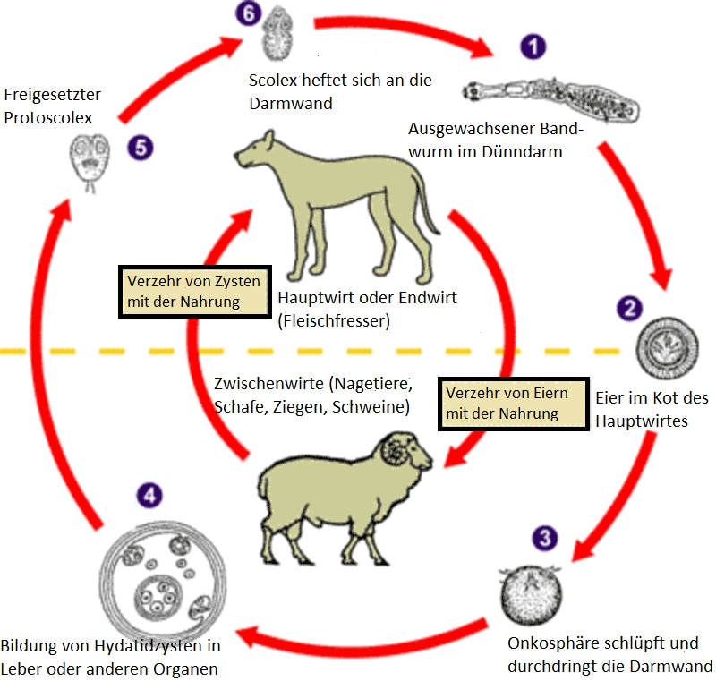 Life cycle of Echinococcus spp.